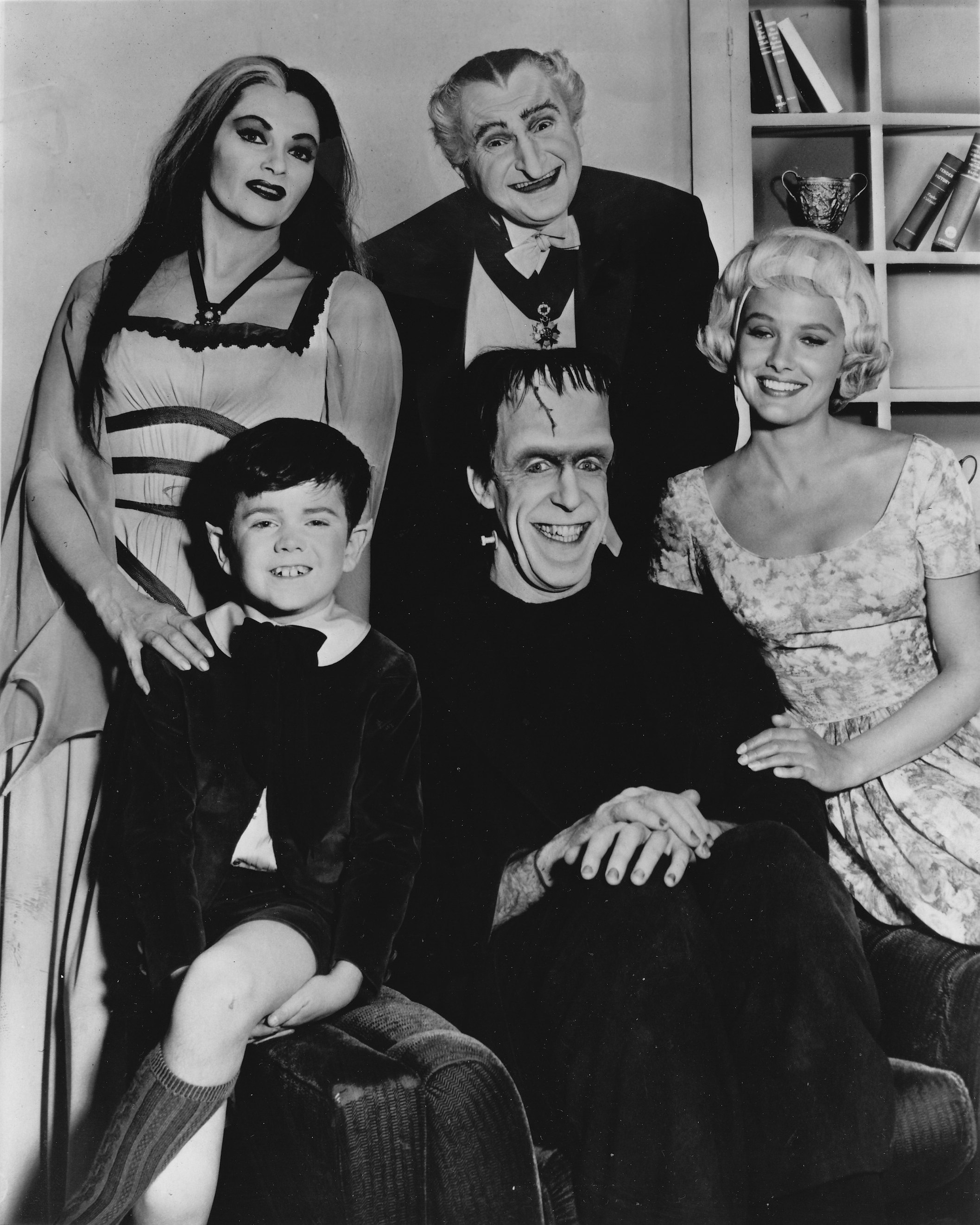 Publicity photo of television actors, (sitting; L–R) Butch Patrick, Fred Gwynne, Beverley Owen, (standing; L–R) Yvonne De Carlo and Al Lewis promoting their roles on the CBS comedy series The Munsters.